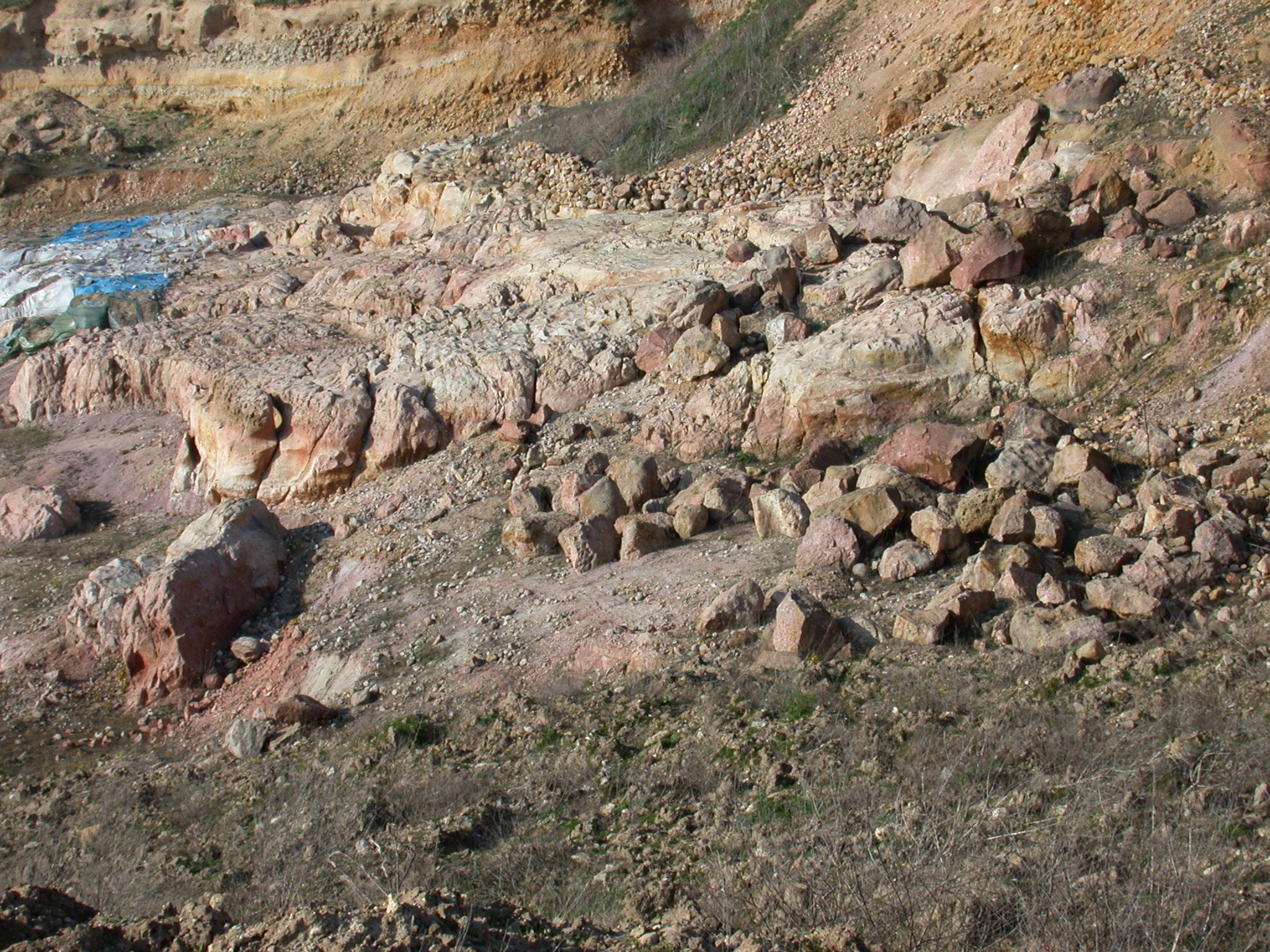 Long shot of fossil sea cliff at Steigerberg hill (view from southeast): Permian volcanic rocks (Kreuznach Rhyolite) with Rupelian (Lower Oligocene, 30 mya) coastal erosion features capped by sands of the Rupelian Alzey Formation (background of image). The image mainly shows a wave-cut platform that developed on top of an older stage of the coastal cliff (left center of image) after a sea level rise. Mainz Basin, Rhineland-Palatinate, Germany[1]